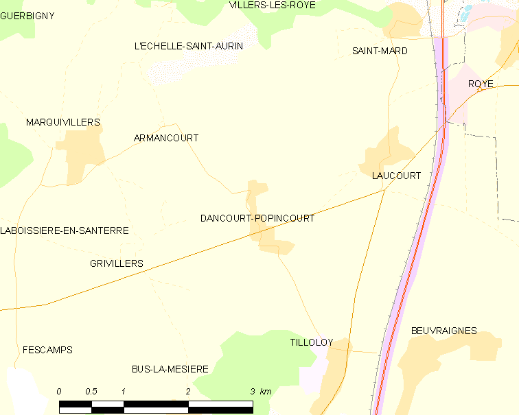 Map of French municipality Dancourt-Popincourt